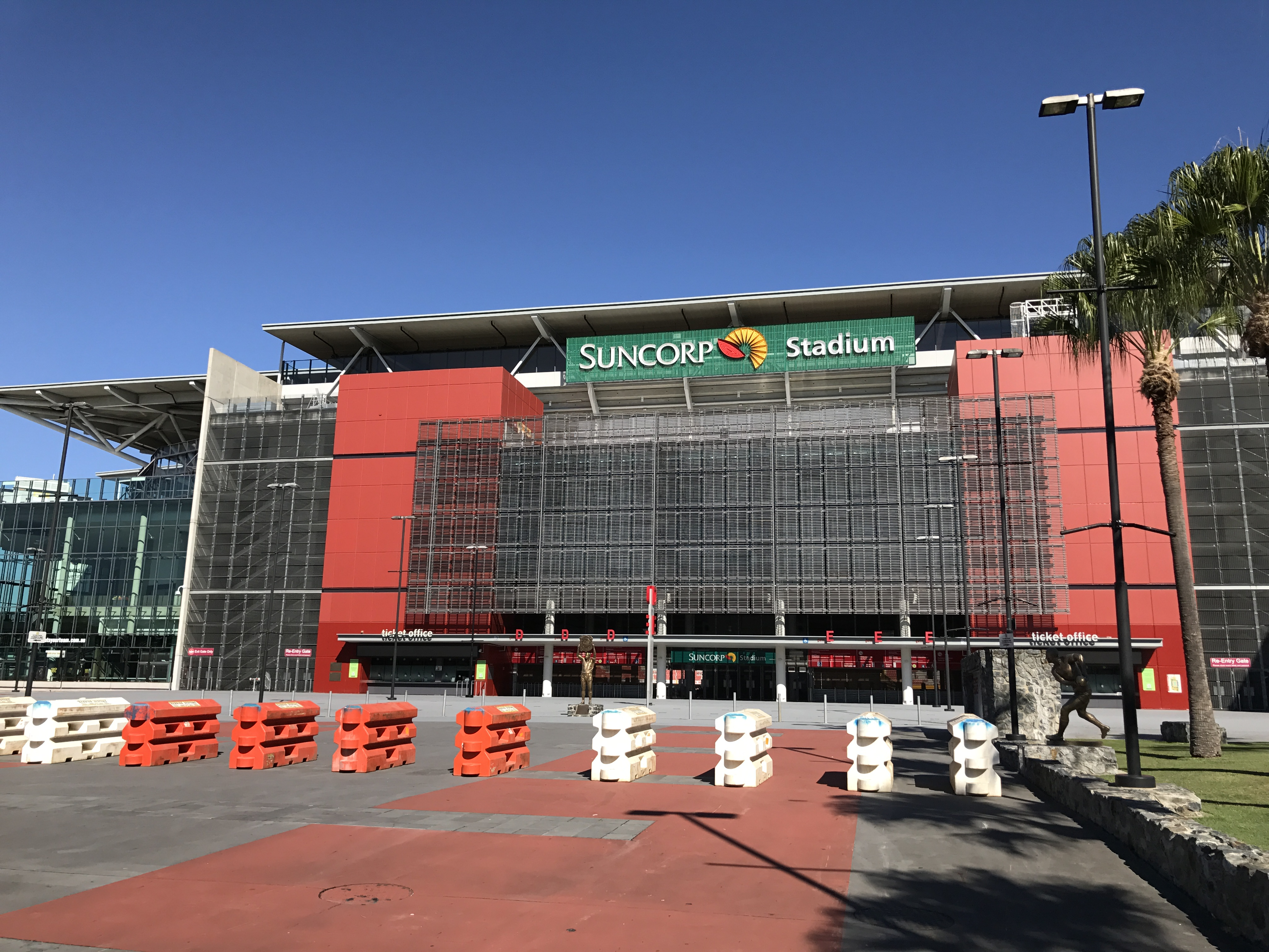 Lang Park (Suncorp Stadium), Milton, Brisbane, Queensland